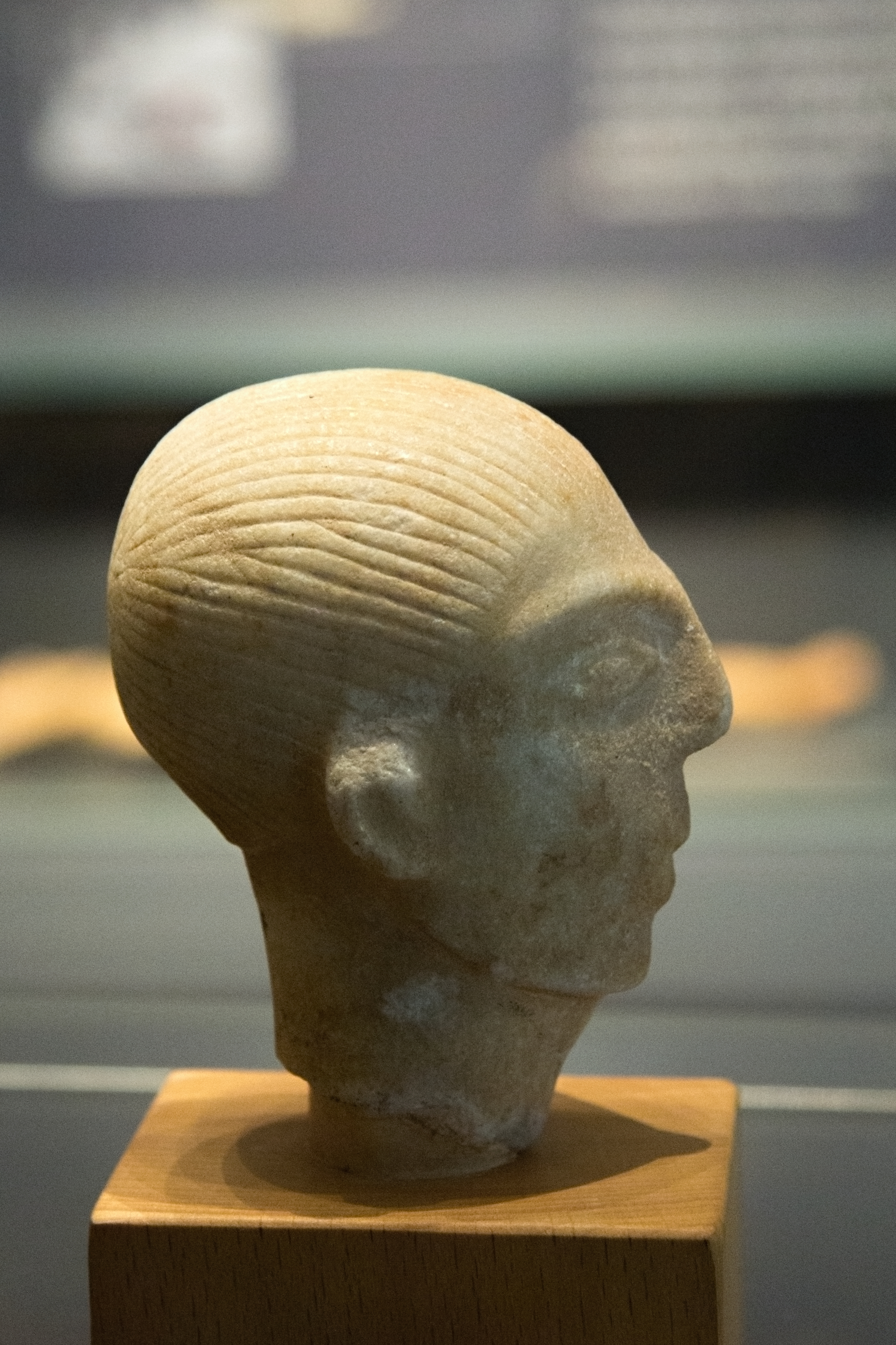 Cycladic Head of a man. Torso of figure (about 45 cm tall). Marble. Amorgos, Early bronze age (EC II), 2800 – 2300 BC. Ashmolean Museum, Oxford, AE 147. (Bought from Robert Carr Bosanquet, said be from Amorgos.)